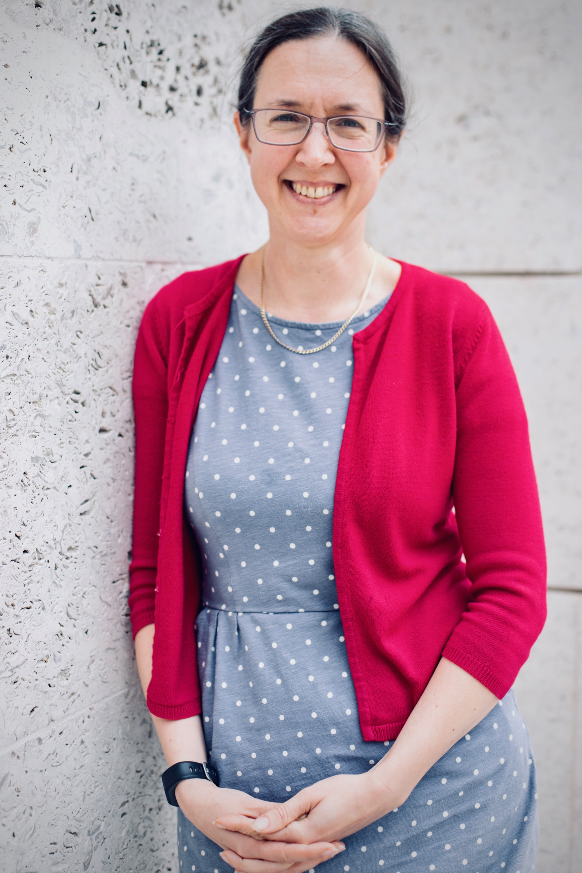 Portrait of Professor Rachel Oliver, Department of Materials Science & Metallurgy, University of Cambridge